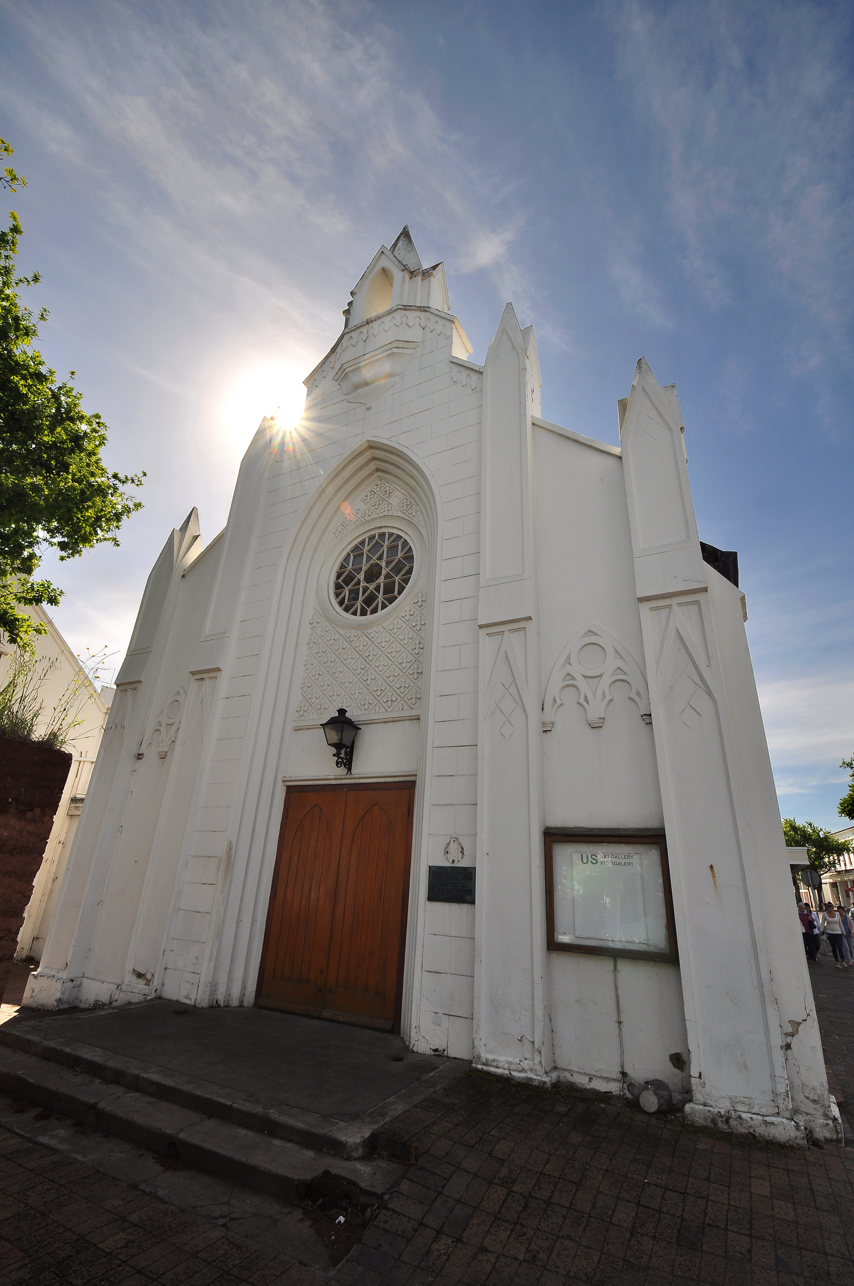 Old Evangelical Lutheran Church, Dorp Street, Stellenbosch This media shows a South African Protected Site with SAHRA file reference 9/2/084/0082.